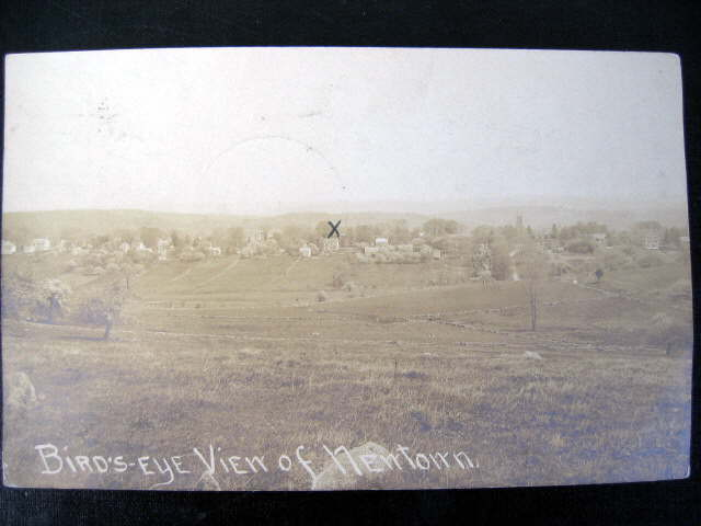 Postcard: Bird's Eye View of Newtown, Connecticut, postmarked 1910 Description: "Written on the back: 'Dear Aunt + Uncle -- Where the cross is on the picture is Uncle Sandy's house. I was at the printing office to-day. With love ..Orval' Mailed to Mr. Orva Ware (Warl?) Salineville, Ohio Postally used - Postal Date JAN 10 1900 (NEWTOWN CONN. to Salineville Ohio)"